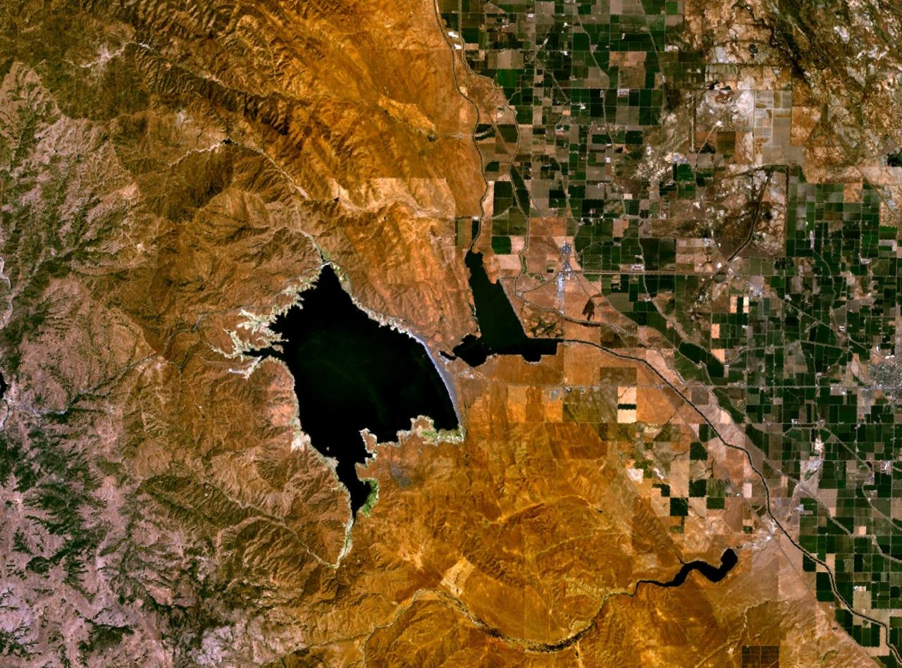 San Luis Reservoir and O'Neill Forebay. Near Los Banos, in the eastern slopes of the Diablo Range of western Merced County, California.